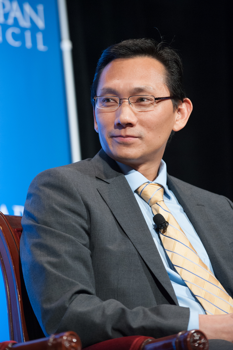 Darren Kimura on Closing Plenary at US Japan Council 2013 photo credit Herman Farrer Photography